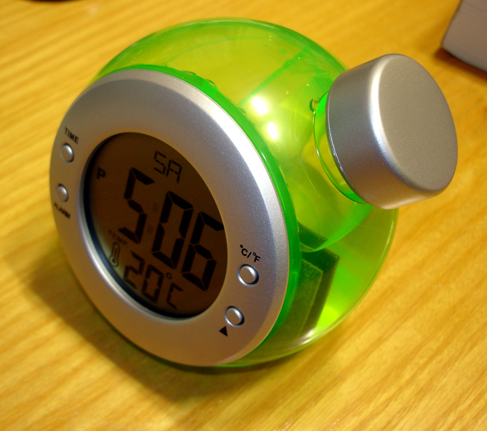 Water powered clock